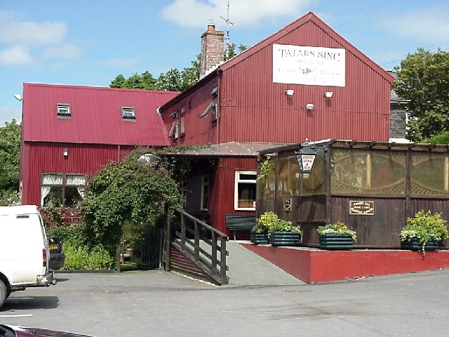 Y Tafarn Sinc. A brilliant pub on the site of the old station. It has sawdust on the floor and real hams hanging from the ceiling.